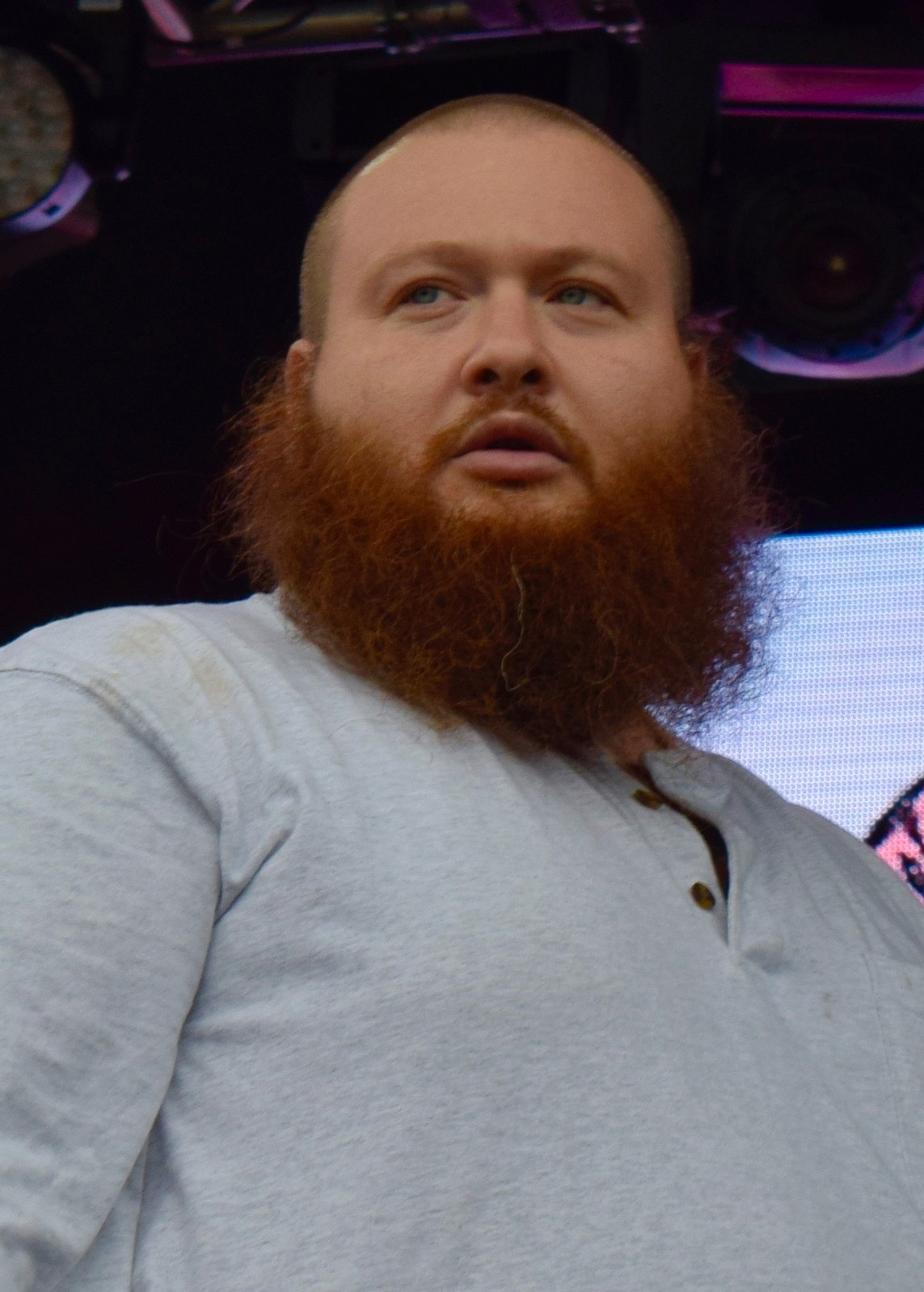 Action Bronson performing live at the Governors Ball Music Festival on June 8, 2016.